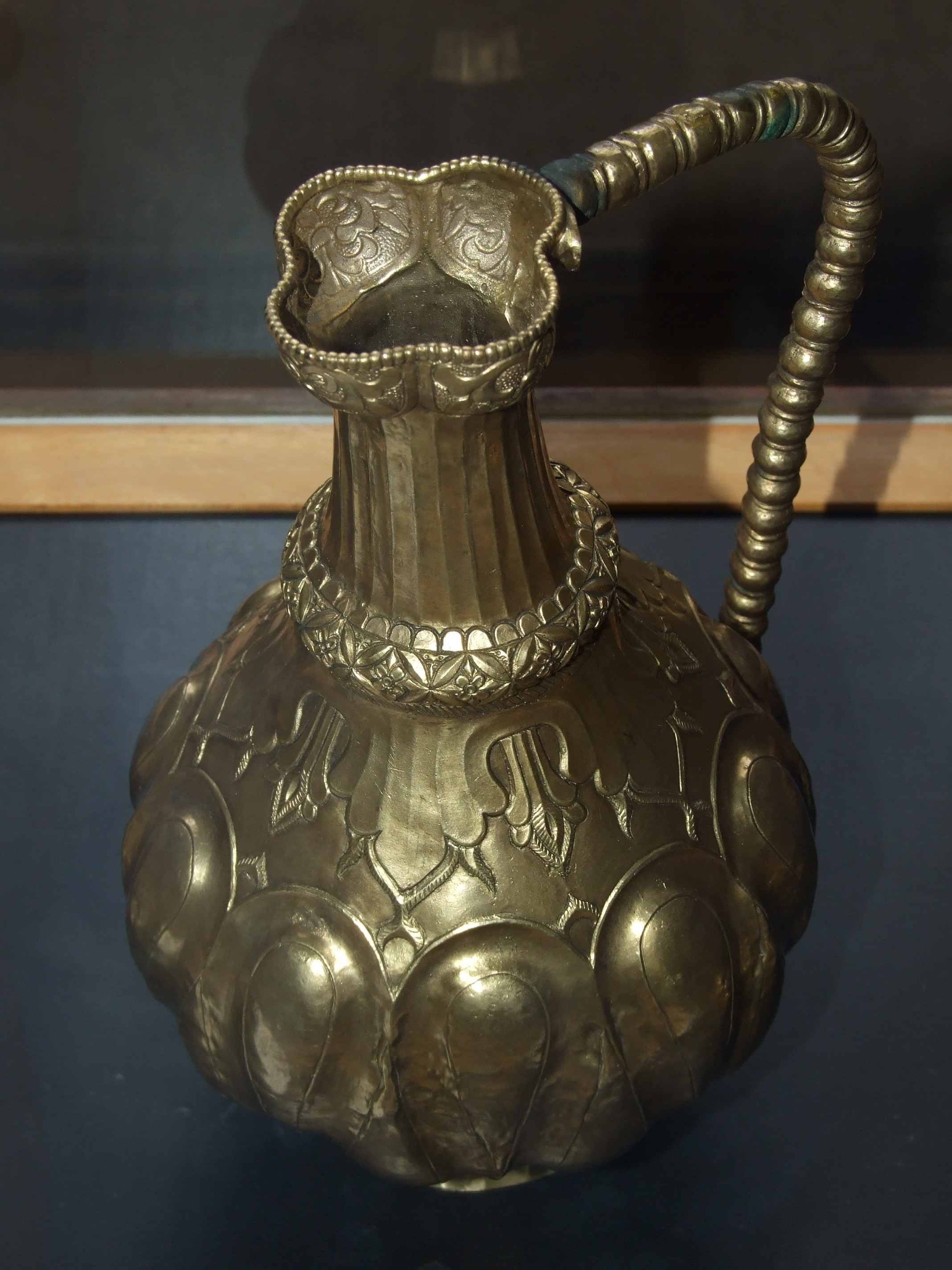 Luxurious late avaric jug, Sinicolau Mare - Nagyszentmiklos (Romania), late 8th century. Prehistoric Times of Bohemia, Moravia and Slovakia, National Museum in Prague